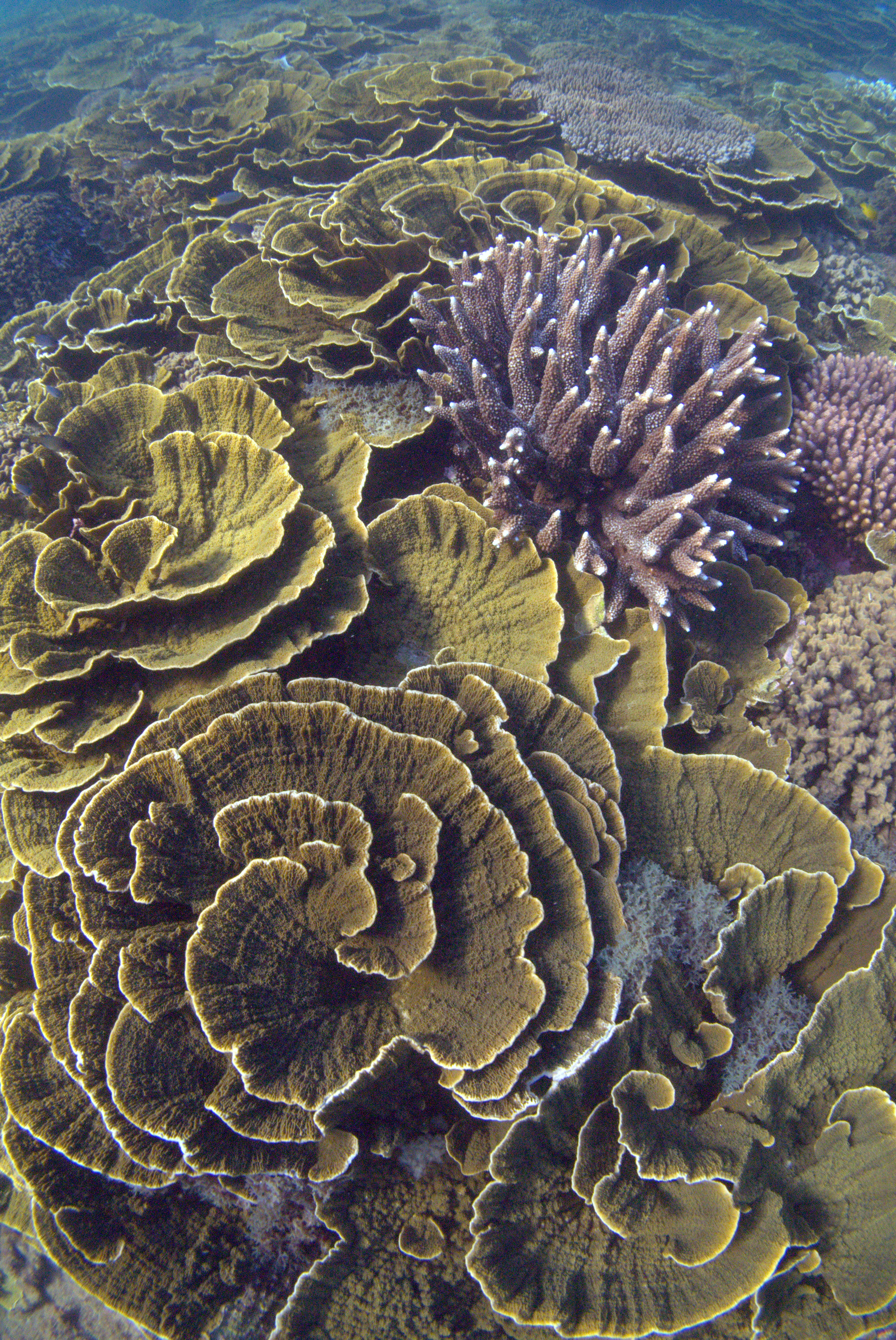 Coral at Arthur Bay, Magnetic Island